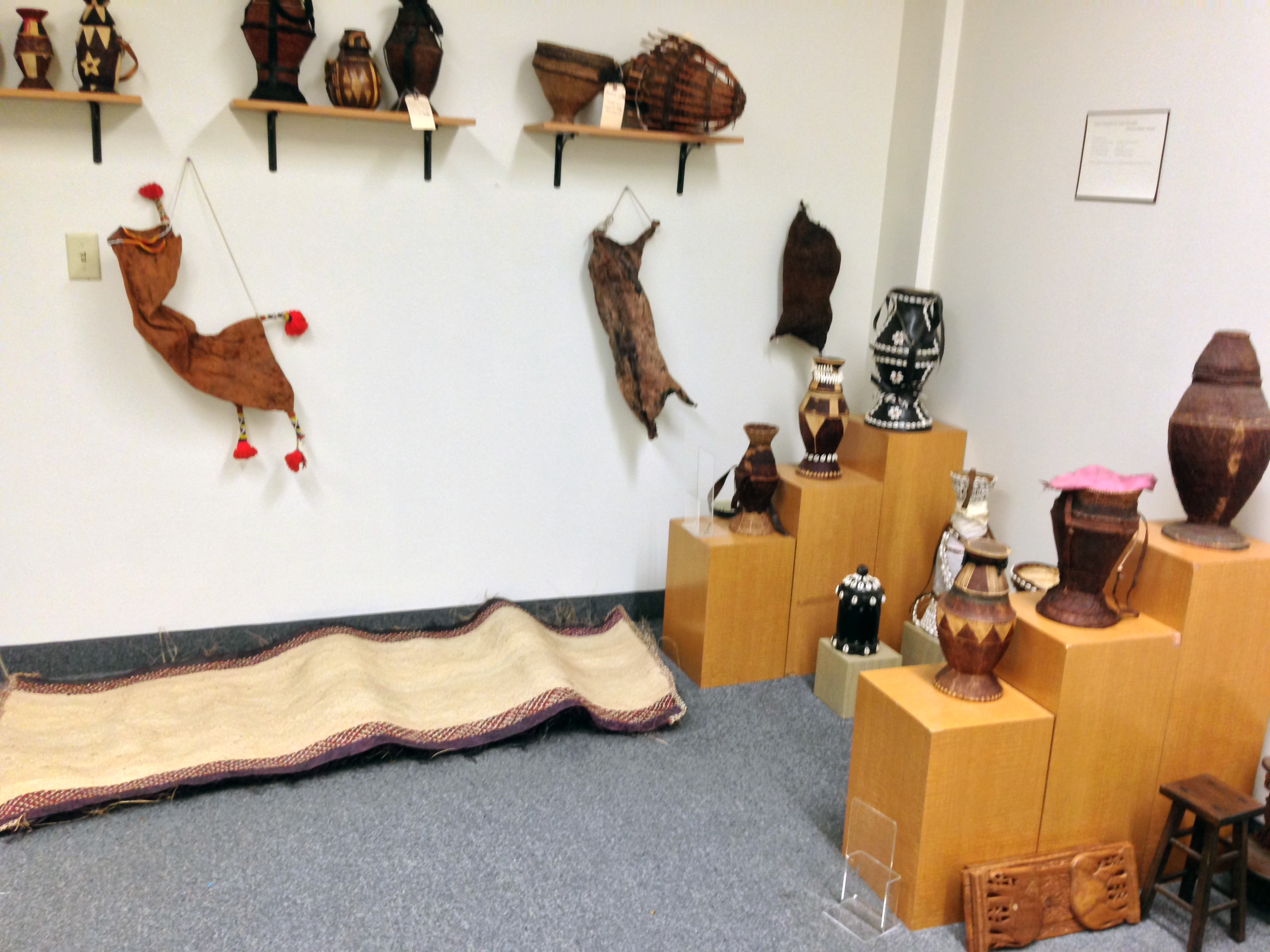 Interior of the Somali Museum of Minnesota showing exhibit. 1516 East Lake Street #11 Minneapolis, MN 55407